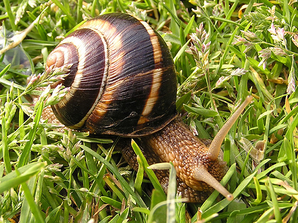 Turkish Snail (Helix lucorum)